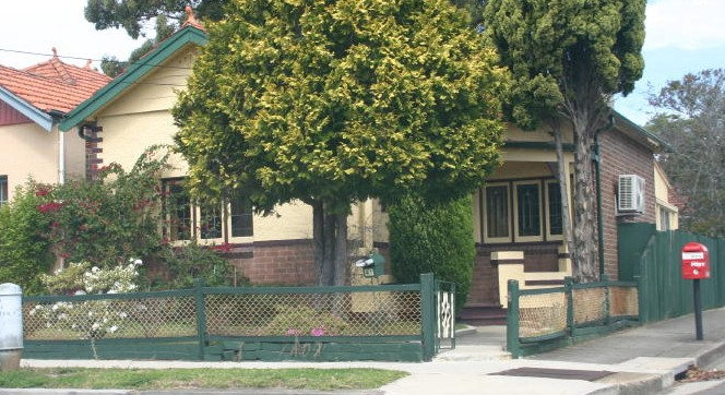 Photo of a typical house in Five Dock, NSW, Australia. September 2004. Canon 300D.